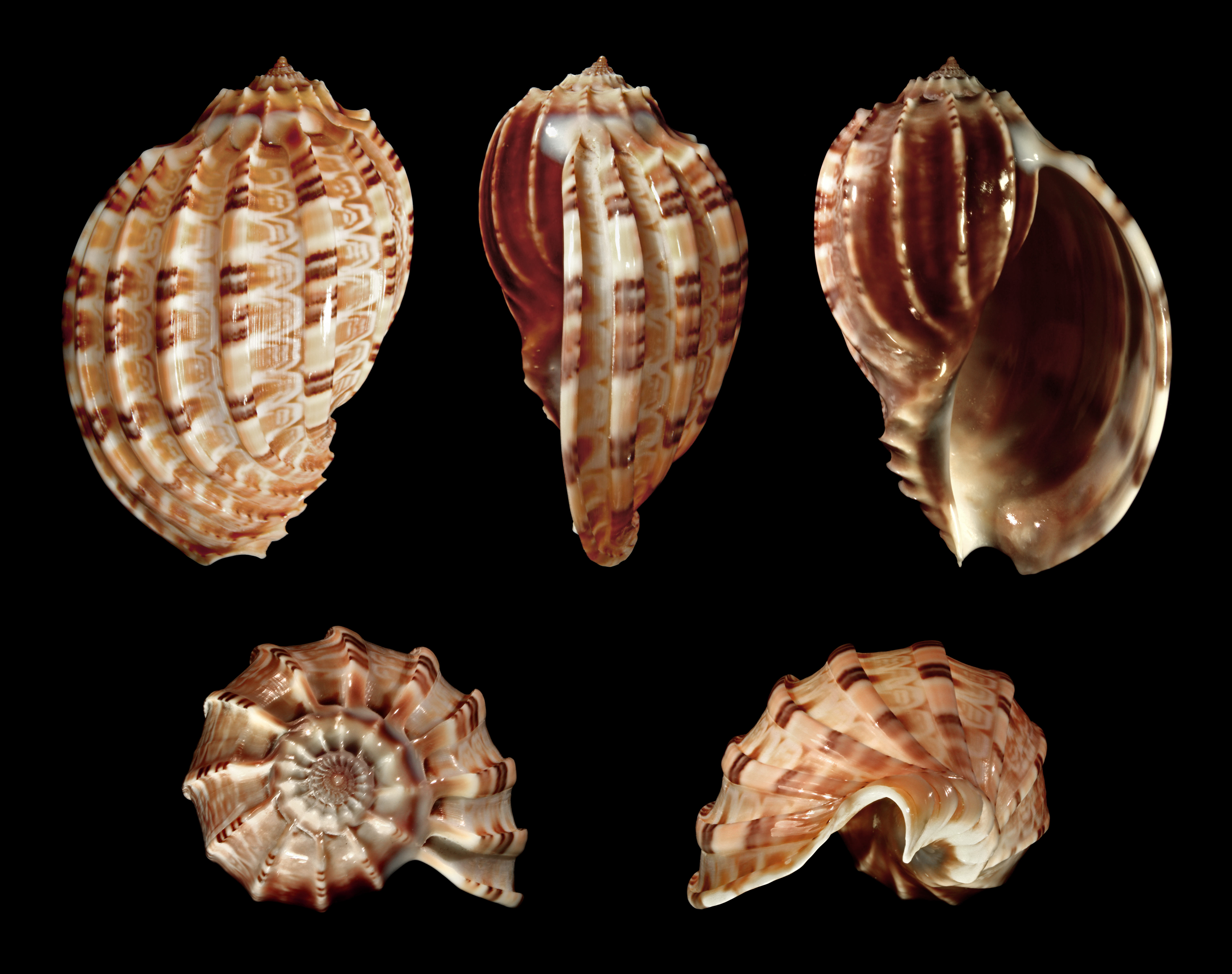 Articulate Harp; Length 8.5 cm; Originating from the Soutwest-Pacific; Shell of own collection, therefore not geocoded. Dorsal, lateral (right side), ventral, back, and front view.